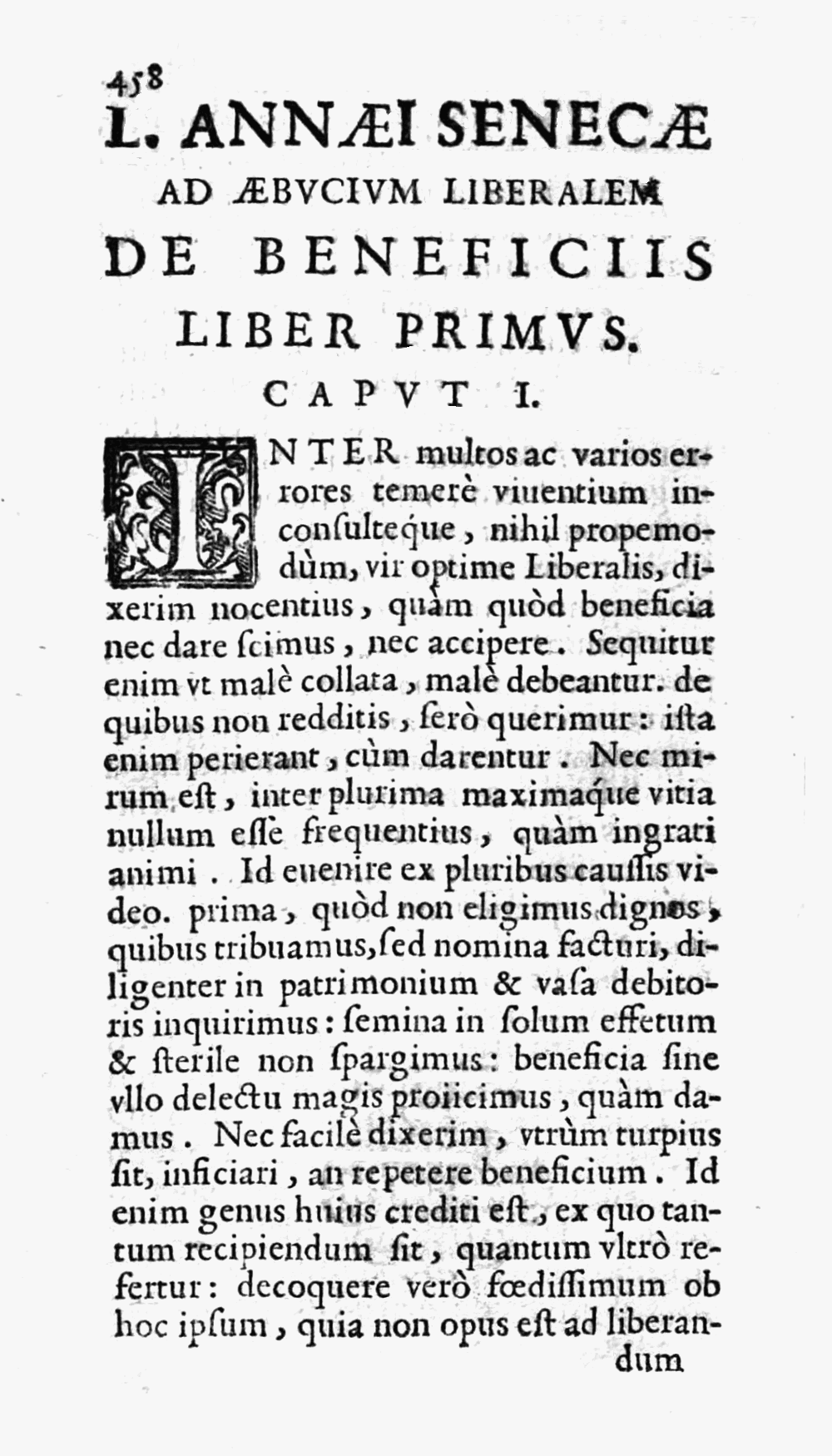 Page 458 of L. Annæi Senecæ philosophi Opera: tribus tomis distincta. Tomus 1. (1643). Published by Francesco Baba. (WorldCat)